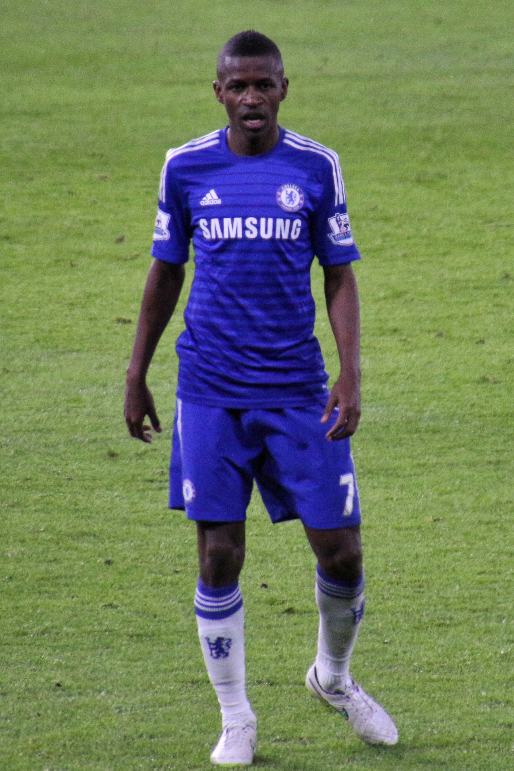 Chelsea 1 Man City 1